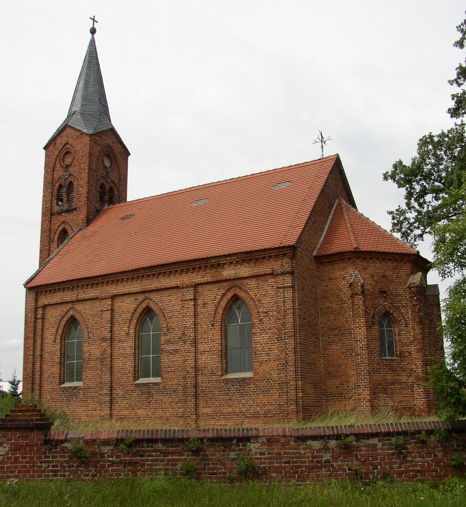 Church in Schollene-Ferchels in Saxony-Anhalt, Germany